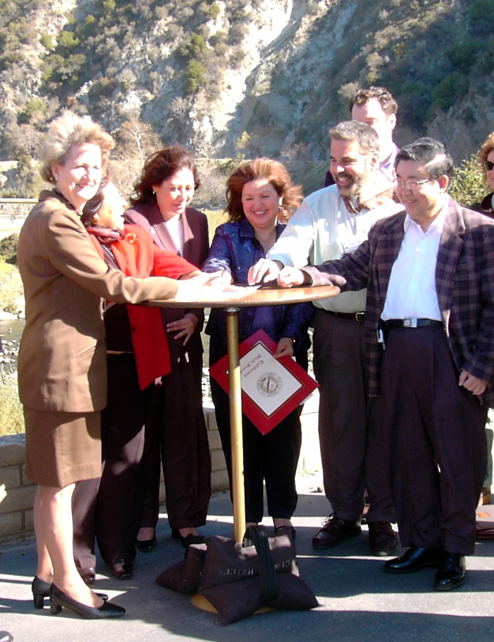 Where the San Gabriel River flows from the mountainous Angeles National Forest to the urbanized San Gabriel Valley, a 39-acre site has been protected for conservation and recreation purposes. Thanks to the Trust for Public Land and the Watershed Conservation Authority, a joint powers authority between Los Angeles County Flood Control District and the San Gabriel and Lower Los Angeles Rivers and Mountains Authority, this site will play an important role in the ever-growing network of protected open spaces and recreation amenities along the 75-mile San Gabriel River. Congresswoman Hilda Solis, a long-time supporter of efforts to protect and enhance the San Gabriel River, joined dozens of river stakeholders and agency representatives to celebrate this acquisition and dedicate the site.